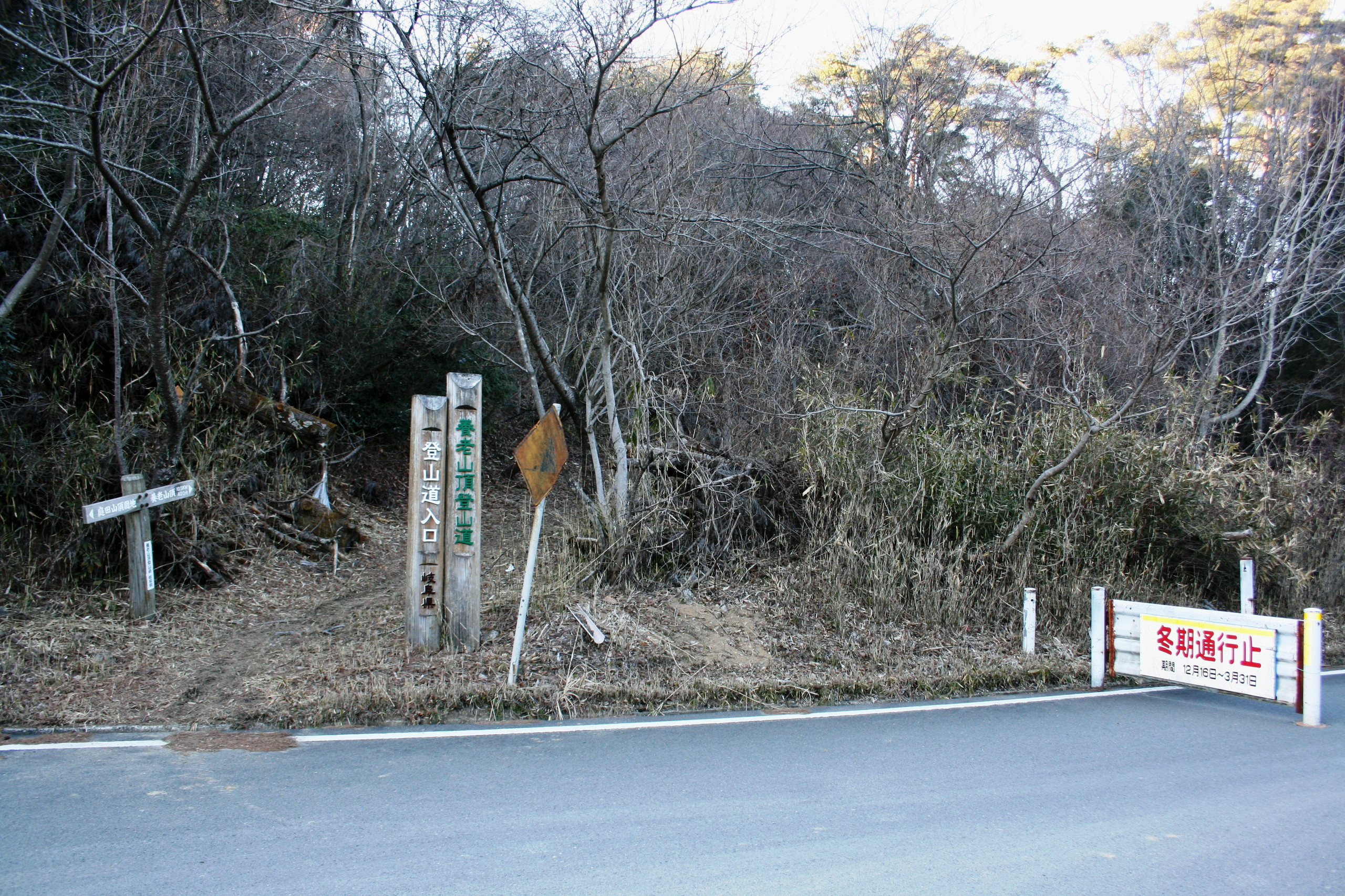 R25 Ninosegoe in Yoro Mountains